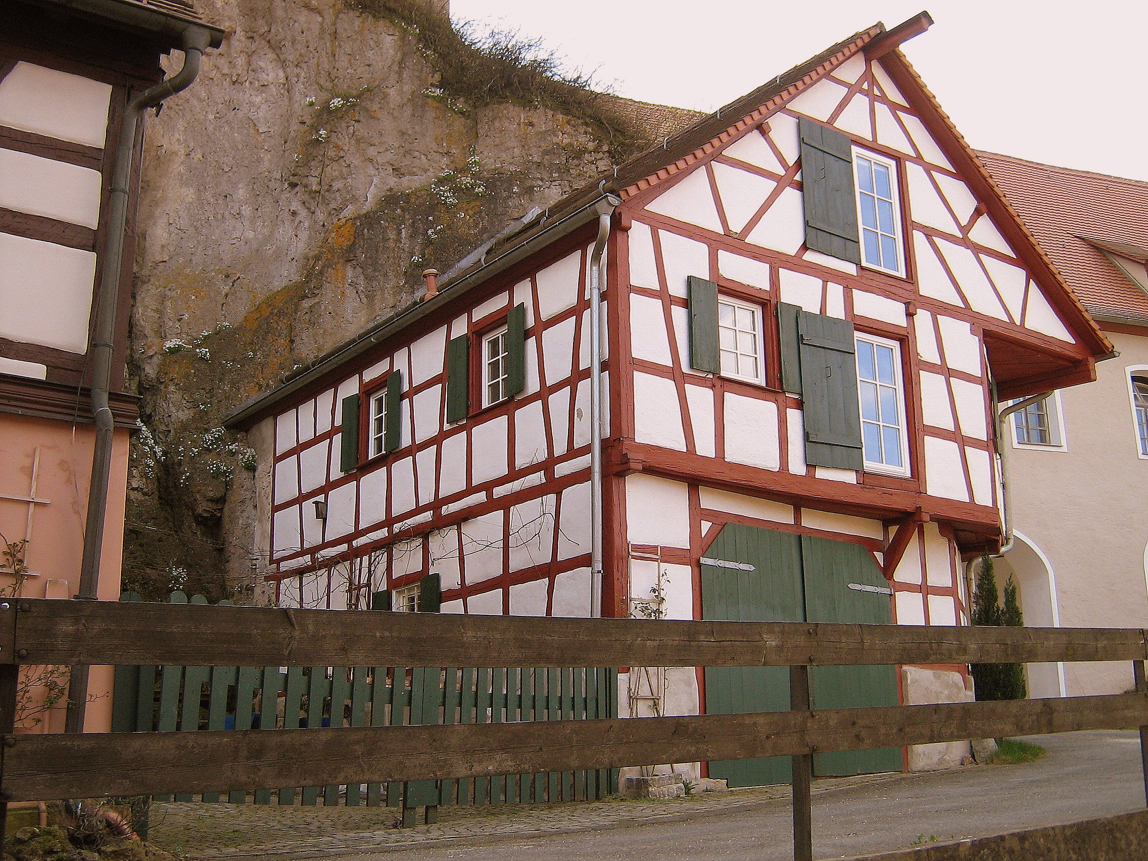 House in Hiltpoltstein (Franconia-Germany)